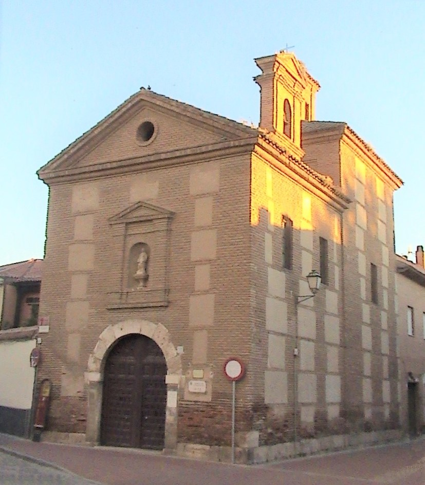 Chapel of Santa Lucia in Alcalá de Henares (Community of Madrid - Spain) the seventeenth century.